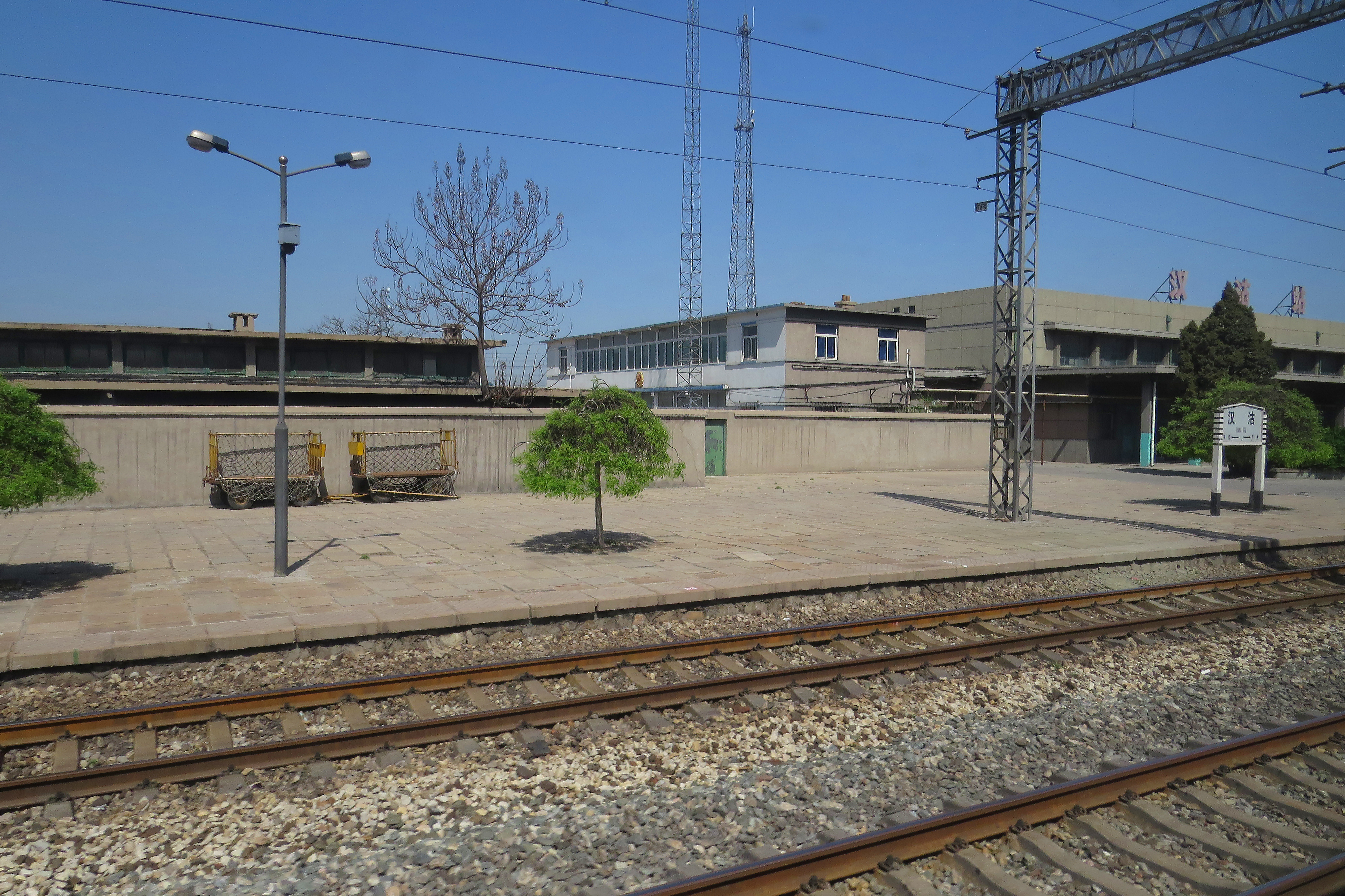 Hangu...in Binhai New Area.